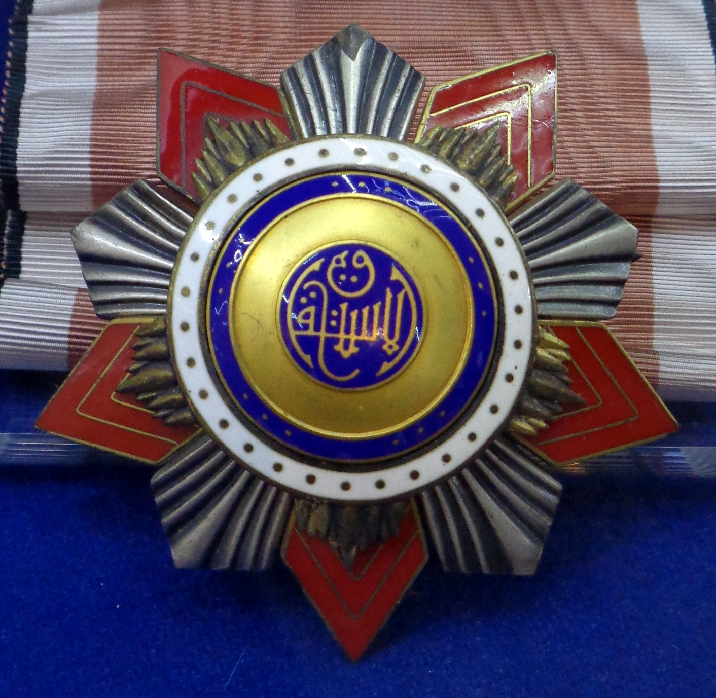 Order of Independence, star of Grand Cross. Egypt. The exhibition of the Tallinn Museum of Orders of Knighthood, Estonia.